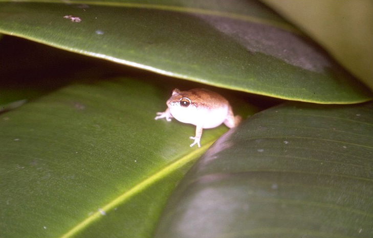 Eleutherodactylus johnstonei